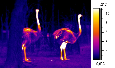 Thermogram image of two ostriches